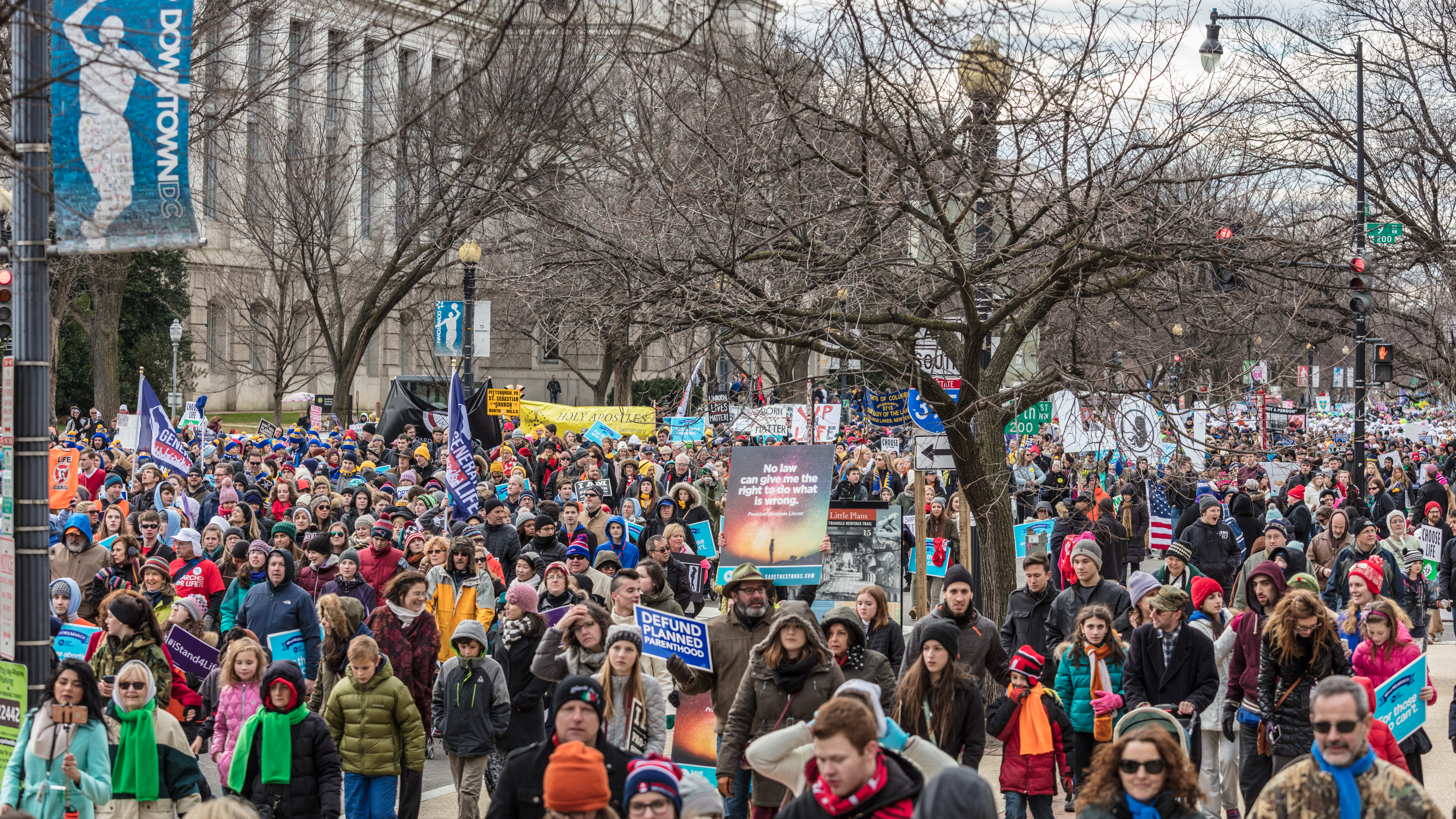 At the 2017 March for Life